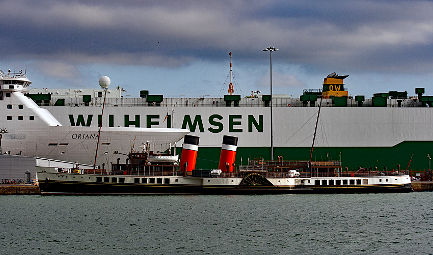 The paddle steamer PS Waveley moored in Southampton Docks Information about Waverley (ship) may be found at IMO 5386954.A ship can change name and flag state through time, but the IMO number remains the same through the hull's entire lifetime. As a result, it can be useful to identify a ship by using the IMO number.